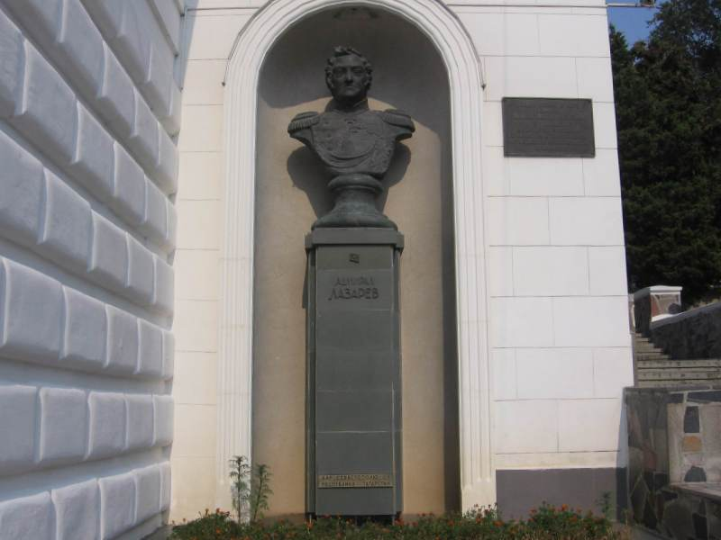 Monument to Admiral Mikhail Lazarev in Sevastopol. Built in 1993.